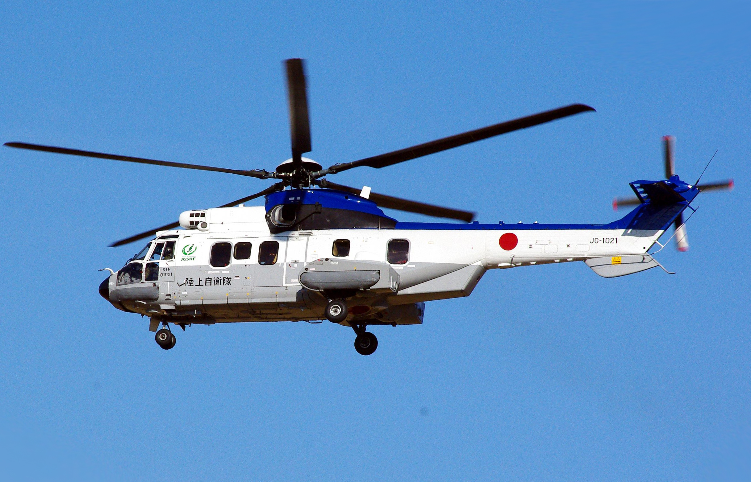 urocopter EC 225 JGSDF